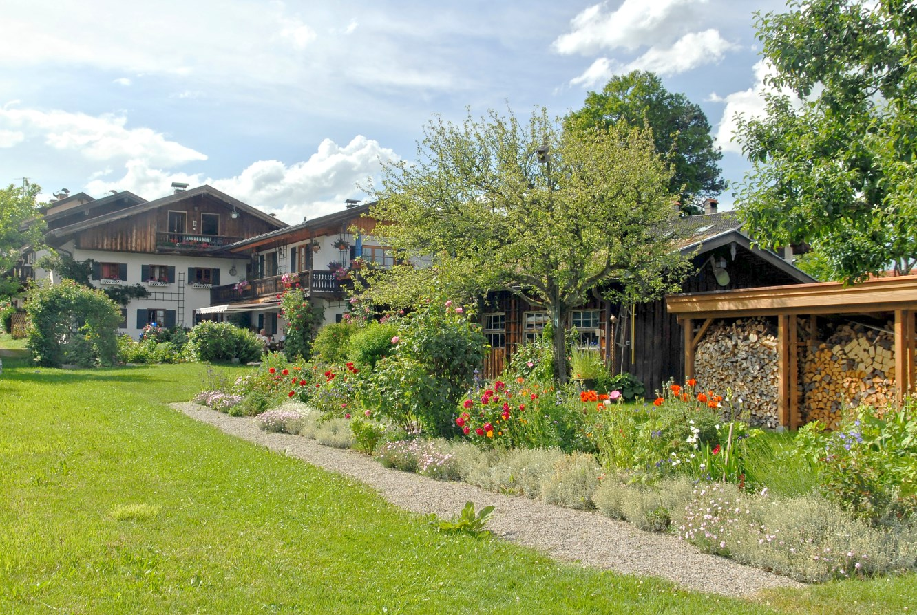 Frauenchiemsee, artist village